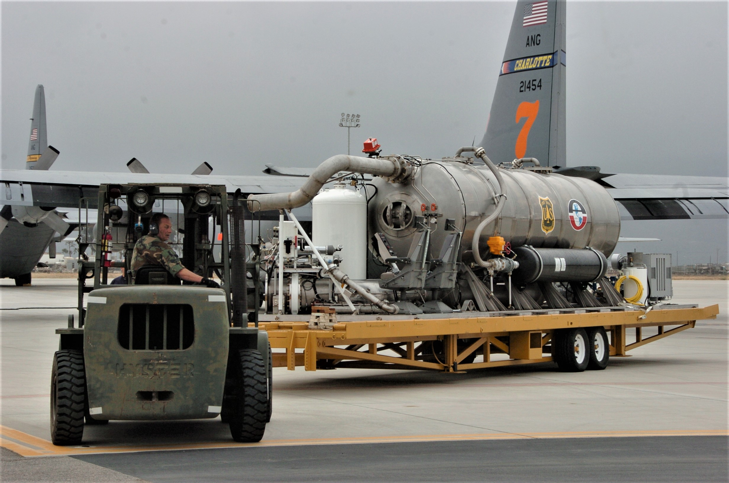 080507-F-7564C-025 The Modular Airborne Fire Fighting System (MAFFS) II tank is displayed for the local media during the MAFFS 2008 annual certifying training at Channel Islands Air Guard Station, Calif., May 7, 2008. The new MAFFS II system takes less time to fill up its new tank and it also provides a larger load which enables the crew to cover heavily forested areas more effectively. In the background is a C-130 Hercules cargo aircraft from the 145th Airlift Wing, North Carolina Air National Guard. (U.S. Air Force photo by Tech. Sgt. Brian E. Christiansen/Released)